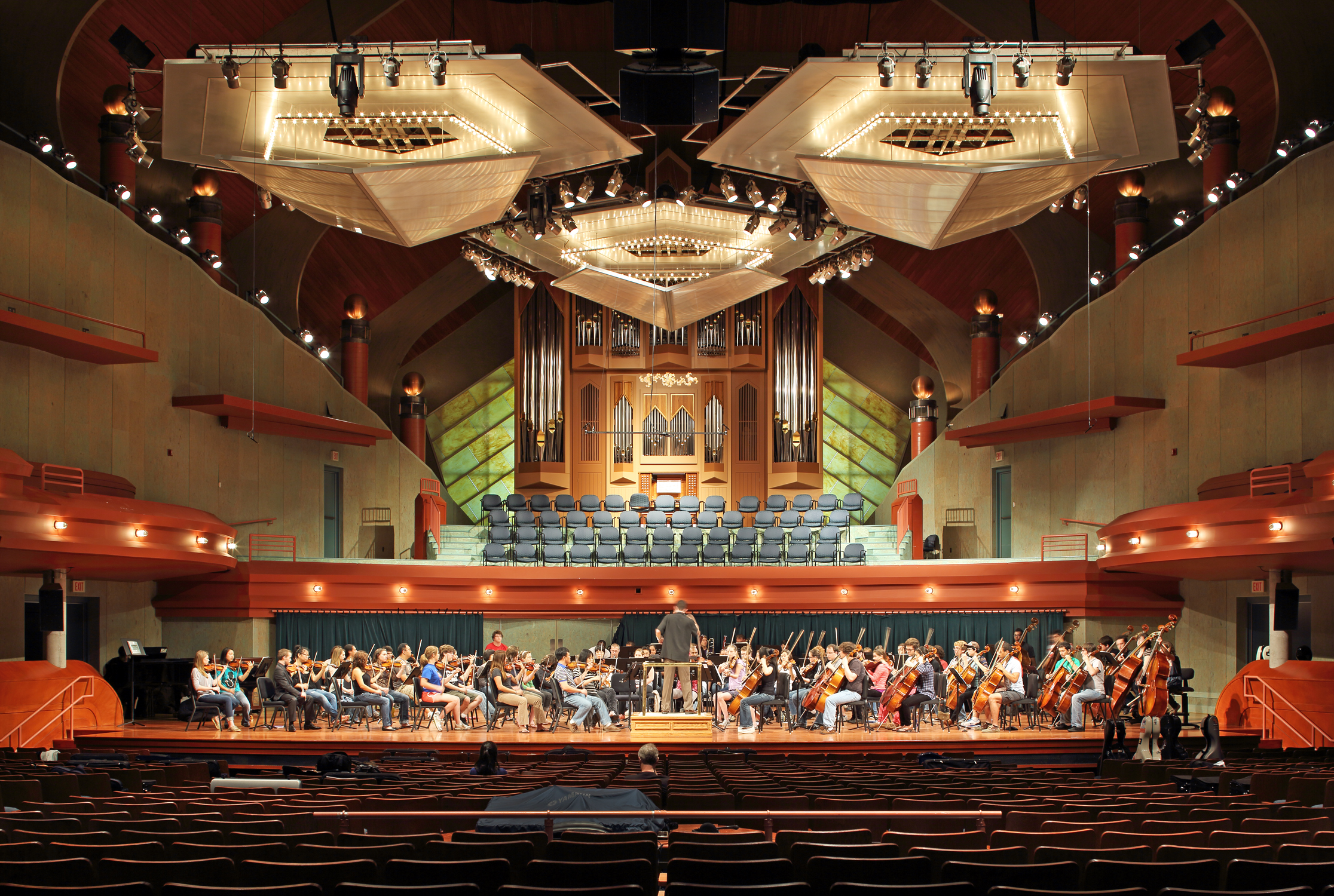 University of North Texas, Lucille “Lupe” Murchison Performing Arts Center designed by Holzman Moss Bottino Architecture